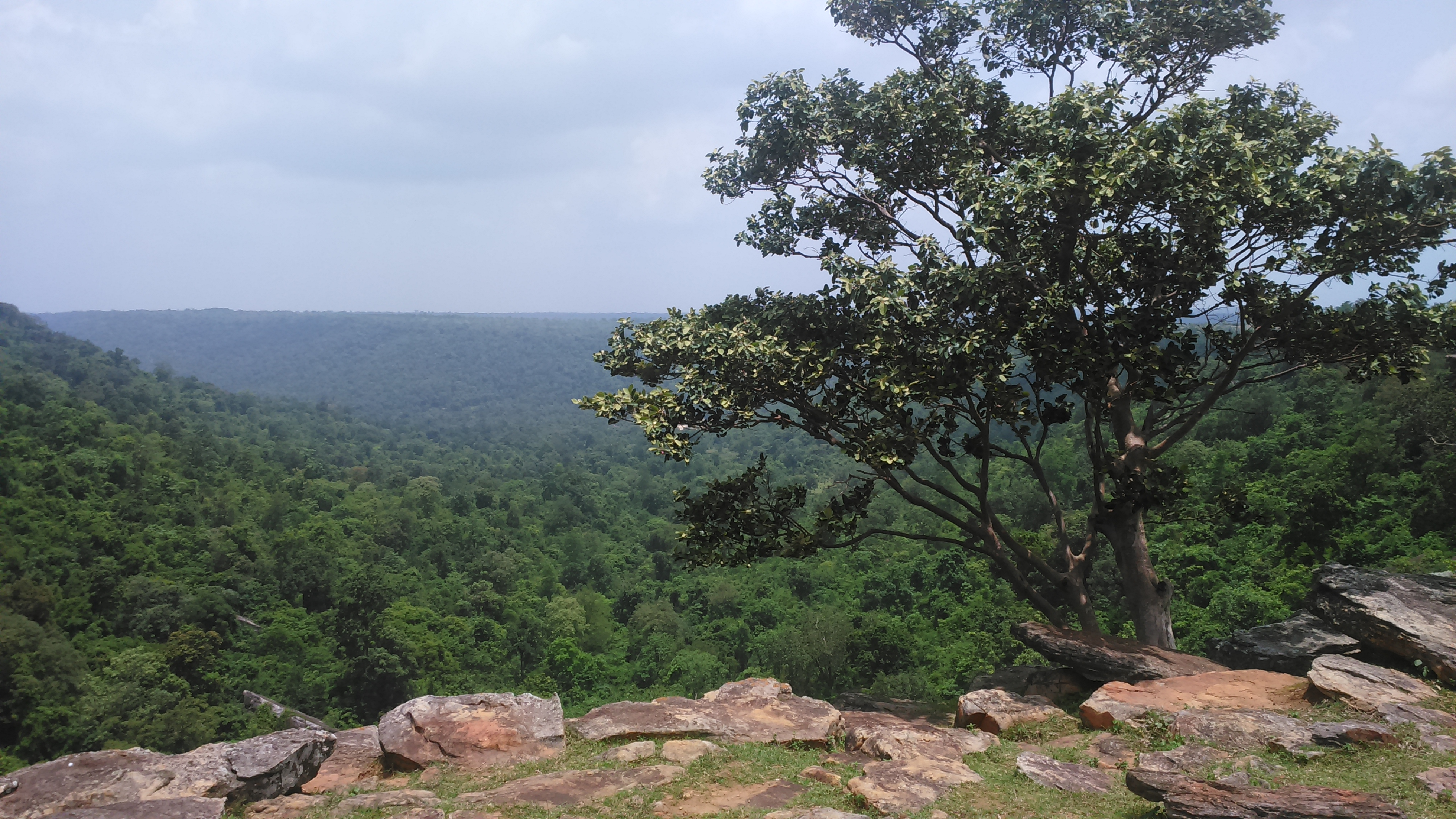 Suicide point in Jagdalpur , Now one of the Tourist Attraction